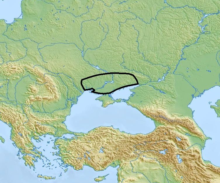 Map of the Lower Mikhaylovka culture, based on a map printed at page 359 in Encyclopedia of Indo-European Culture, which was edited by J. P. Mallory and Douglas Q. Adams, and published by Taylor & Francis in 1997.